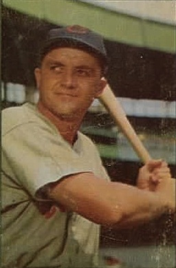 Cincinnati Reds outfielder Willard Marshall.